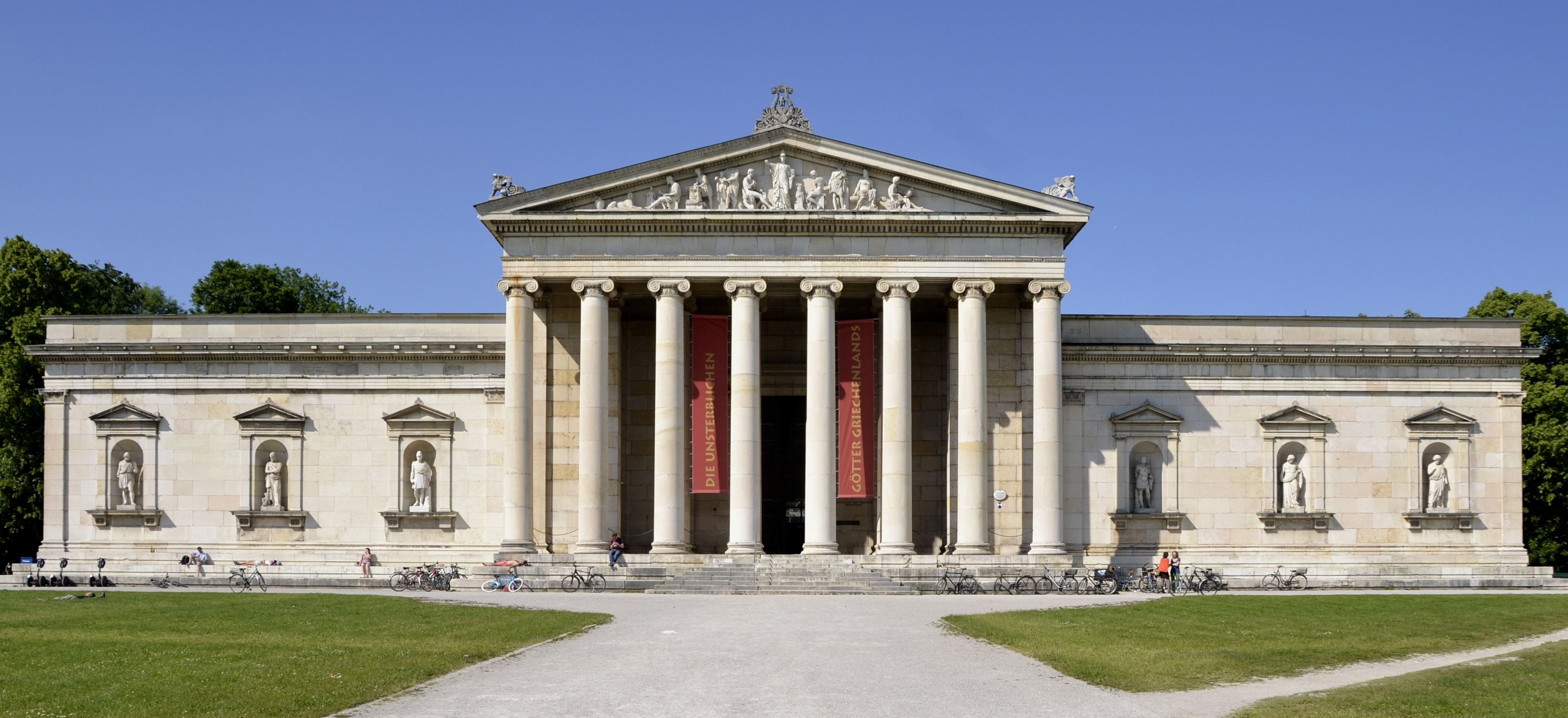 The Glyptothek in Munich.